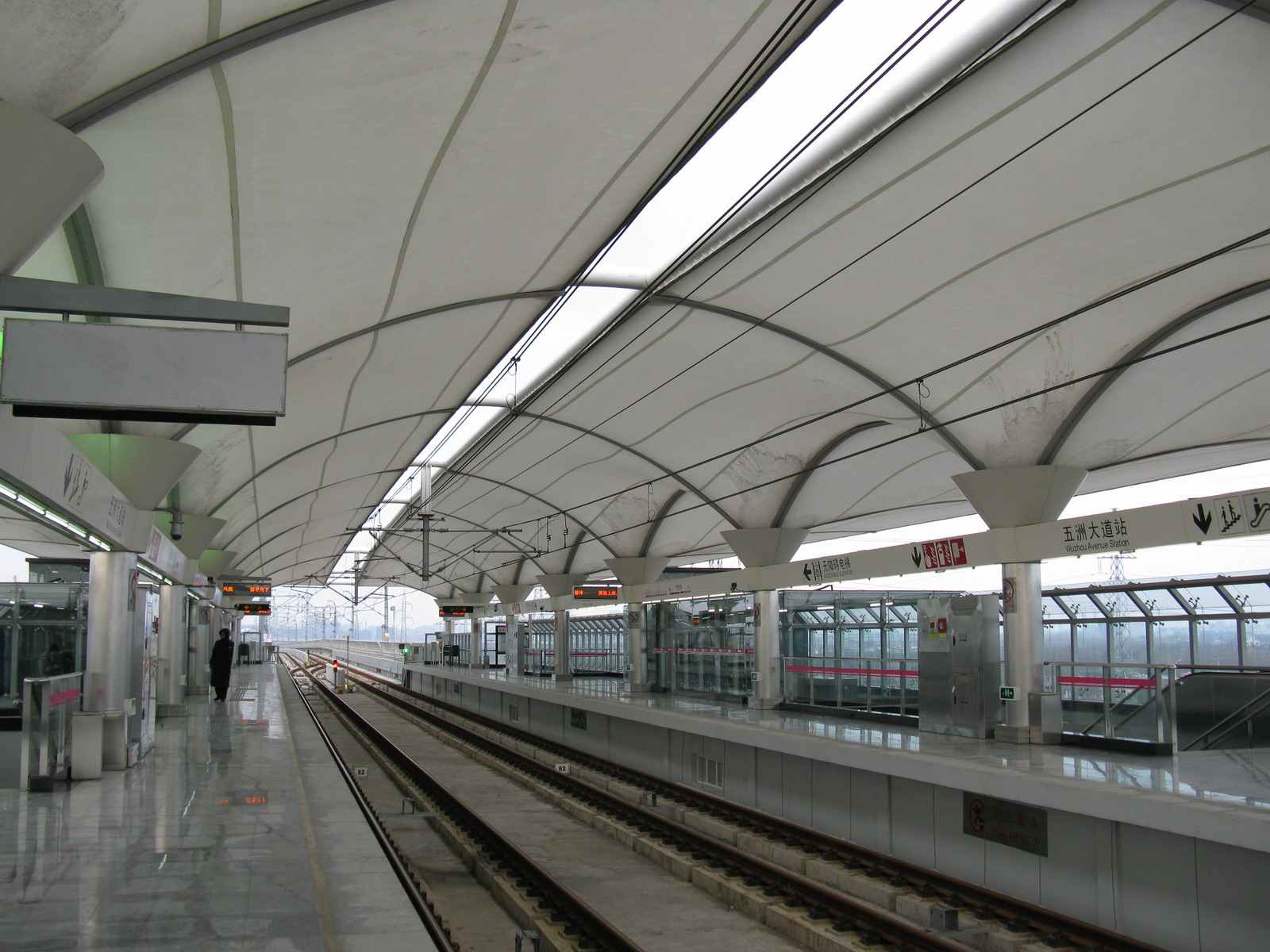 五洲大道站 6号线月台 Line 6 Platform of Wuzhou Avenue Station